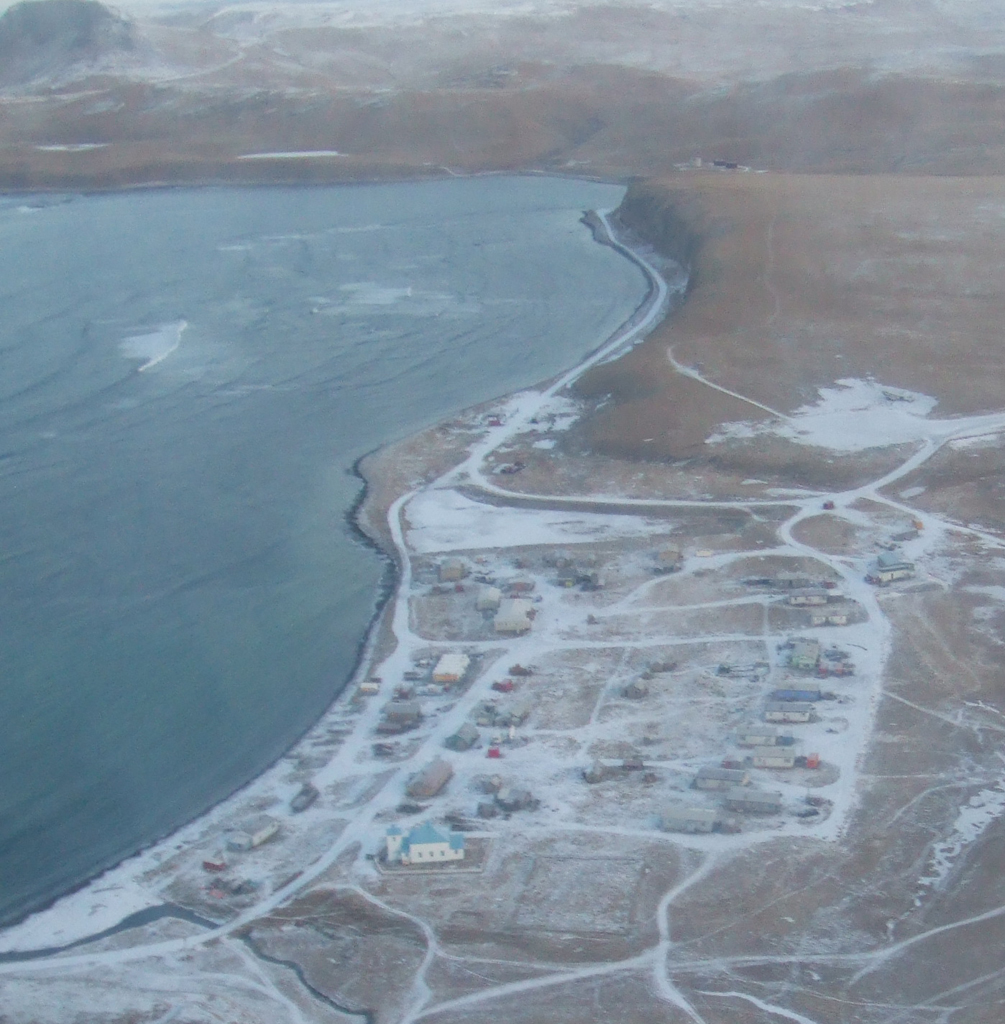 Author: Eric Wuttke Source: Digital Camera Photo from Airplane Fair Use: Photo taken by author flying into Nikolski, December 2006